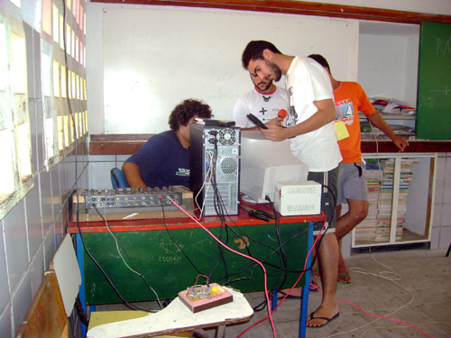 Photo of Radio Redonda Livre, Redonda Beach (Icapuí/CE/Brazil), November 12, 2006.